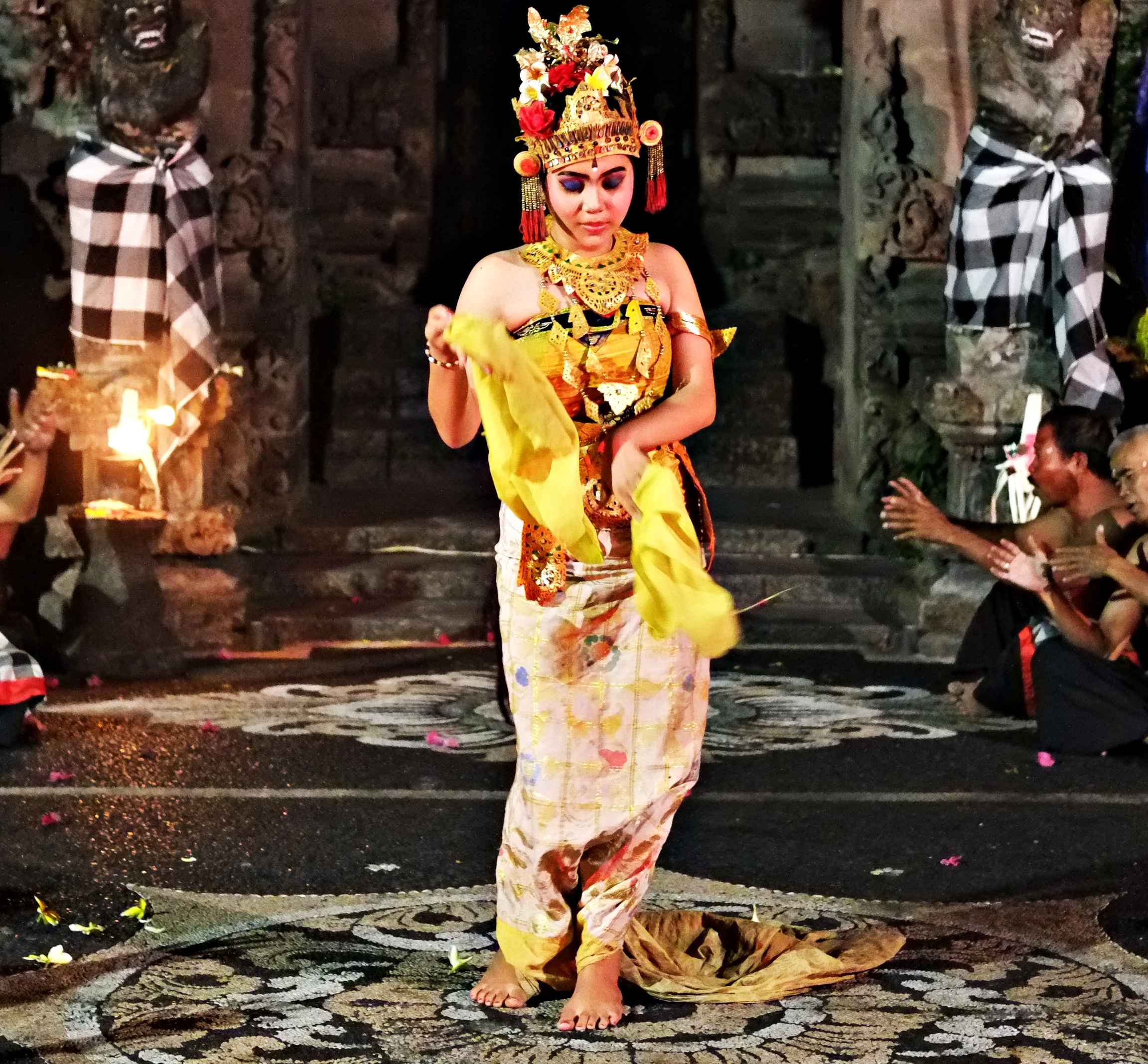 Princess Sinta at the kecak fire dance at Tanah Lot Bali